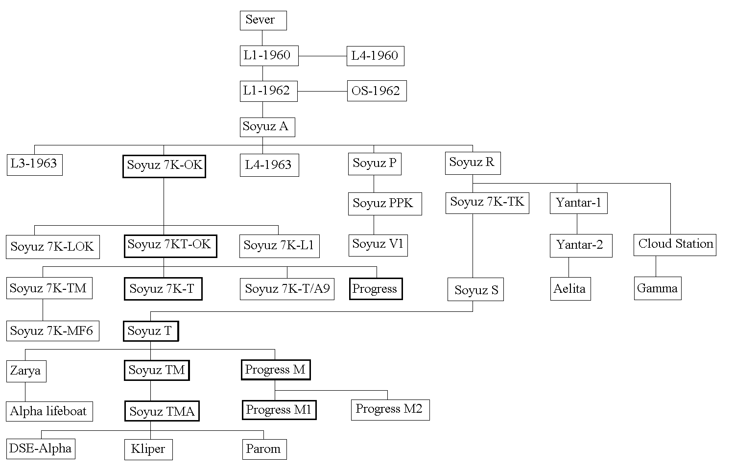 Cheology of Soyuz